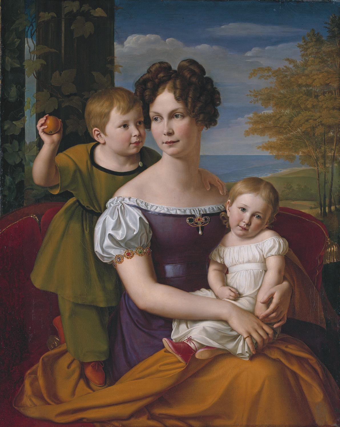 Alexandrine von Mecklenburg and her children oil on canvas 115 x 91 cm circa 1825